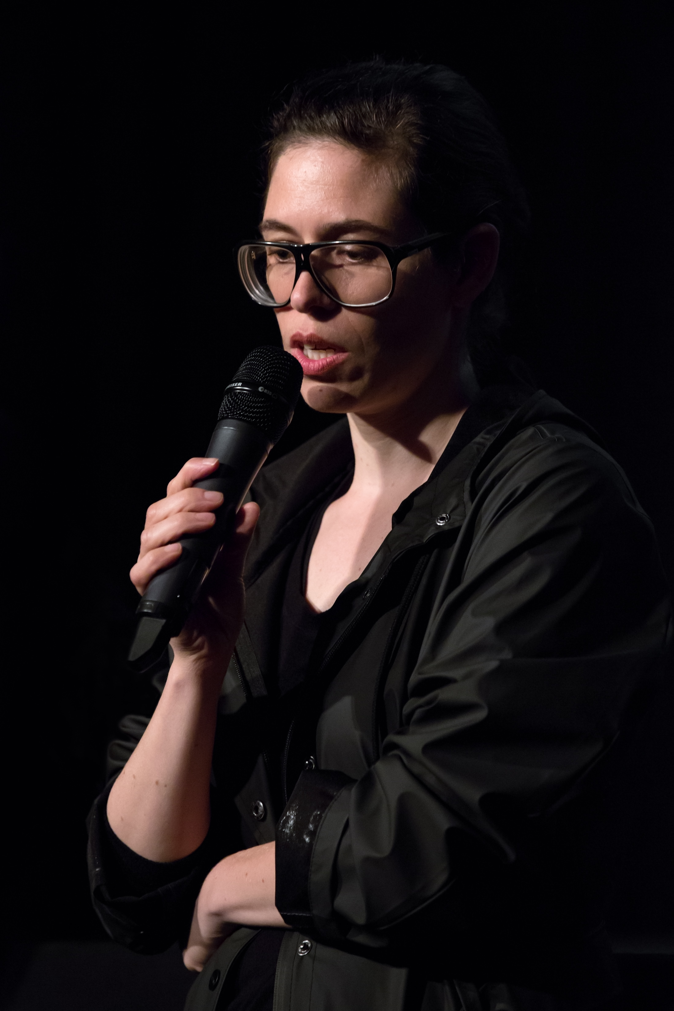 Annja Krautgasser, audience discussion during the short film festival Vienna Independent Shorts 2015 at Stadtkino im Künstlerhaus in Vienna, Austria.